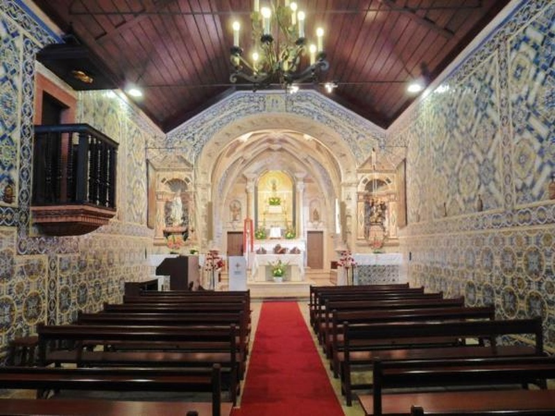 Vista da a nave da Igreja